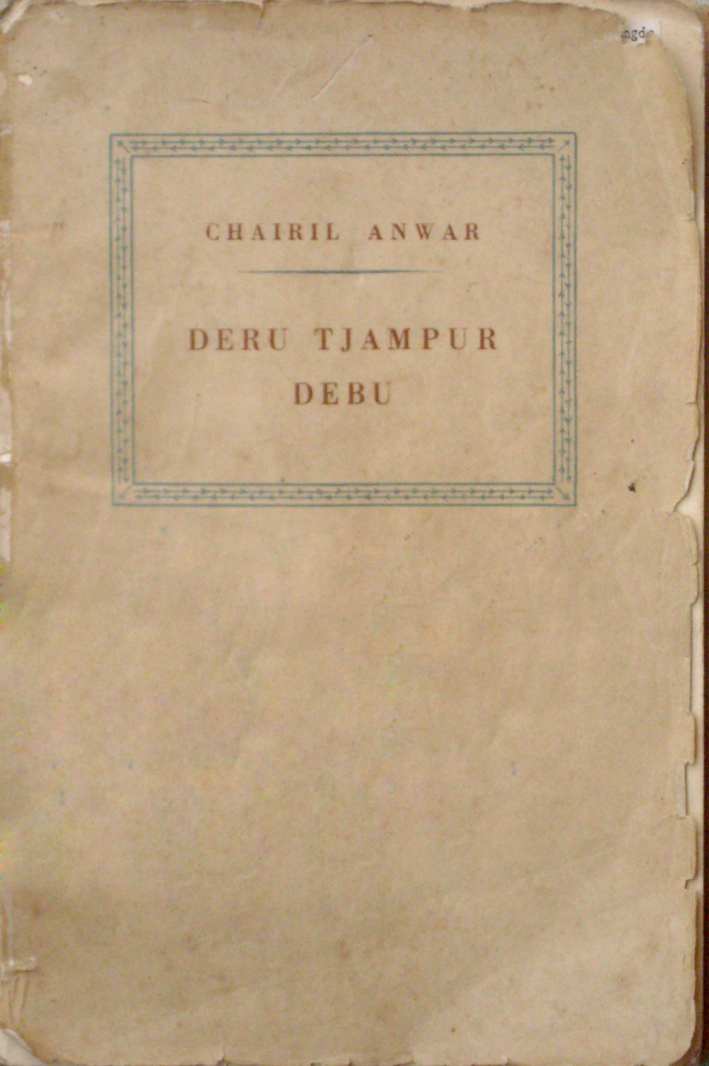 Front cover of the fourth printing of Chairil Anwar's poetry collection Deru Tjampur Debu.